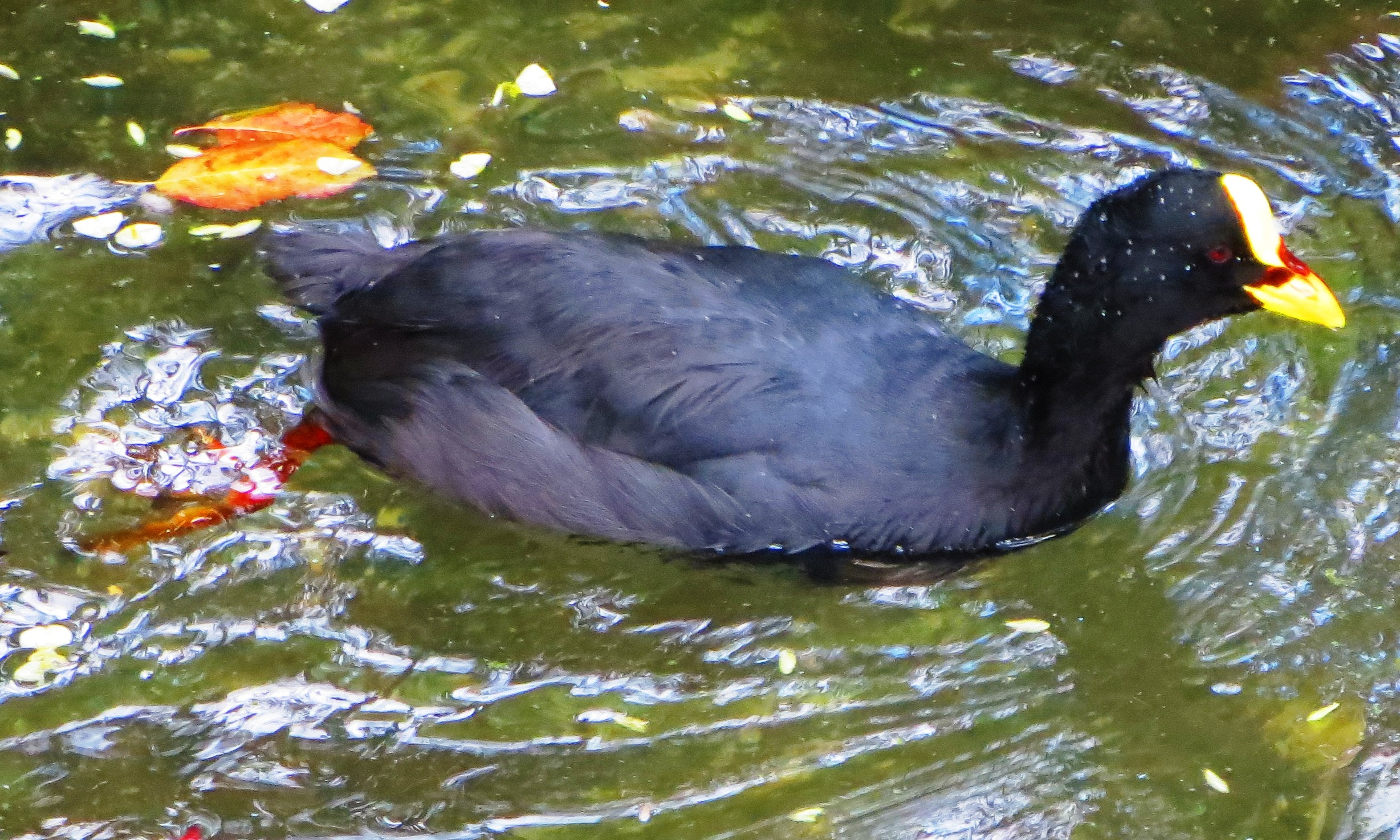 Red-gartered Coot (Fulica armillata) at the Chilean National Zoo in Santiago, Chile.